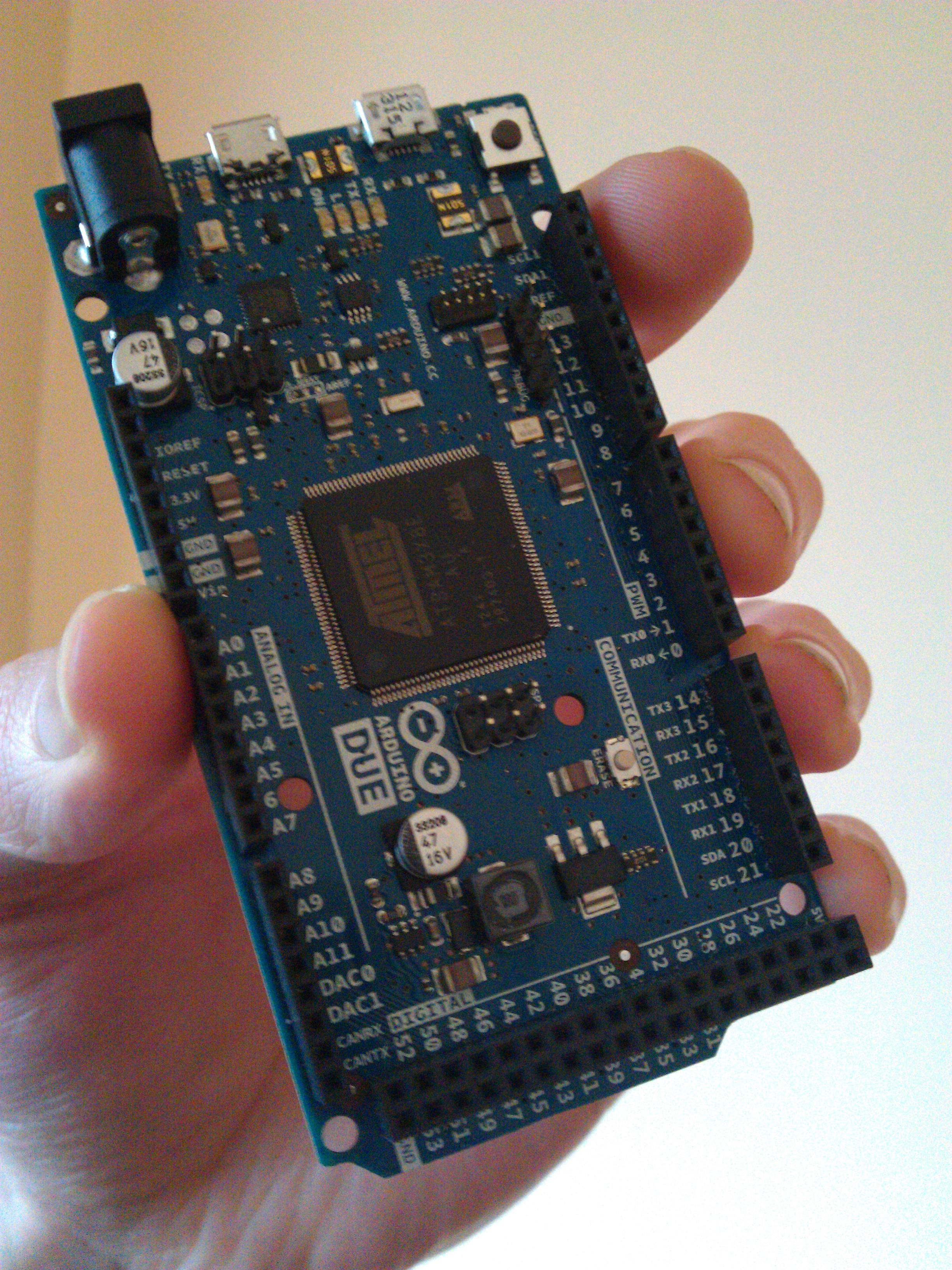 An image of the new Arduino Due Microcontroller